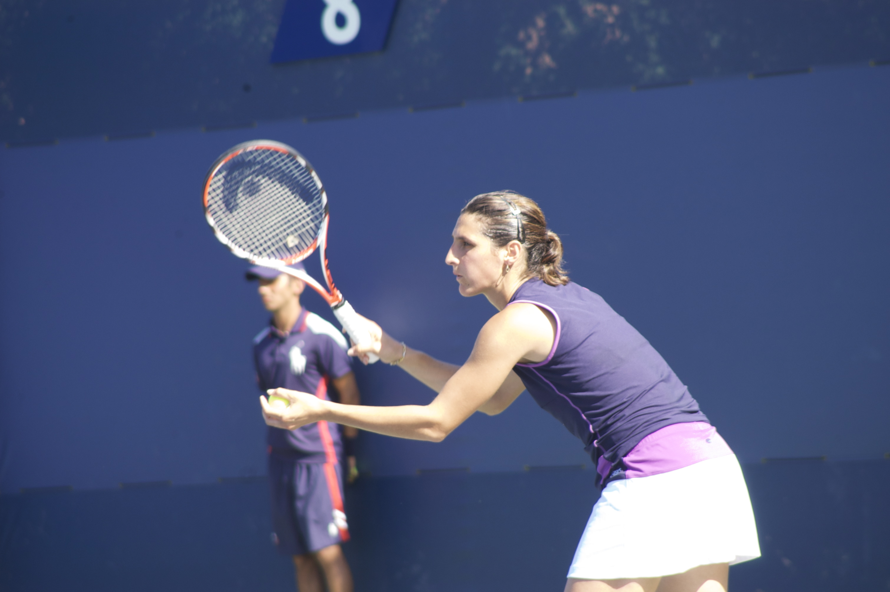 Virginie Razzano at the 2008 US Open